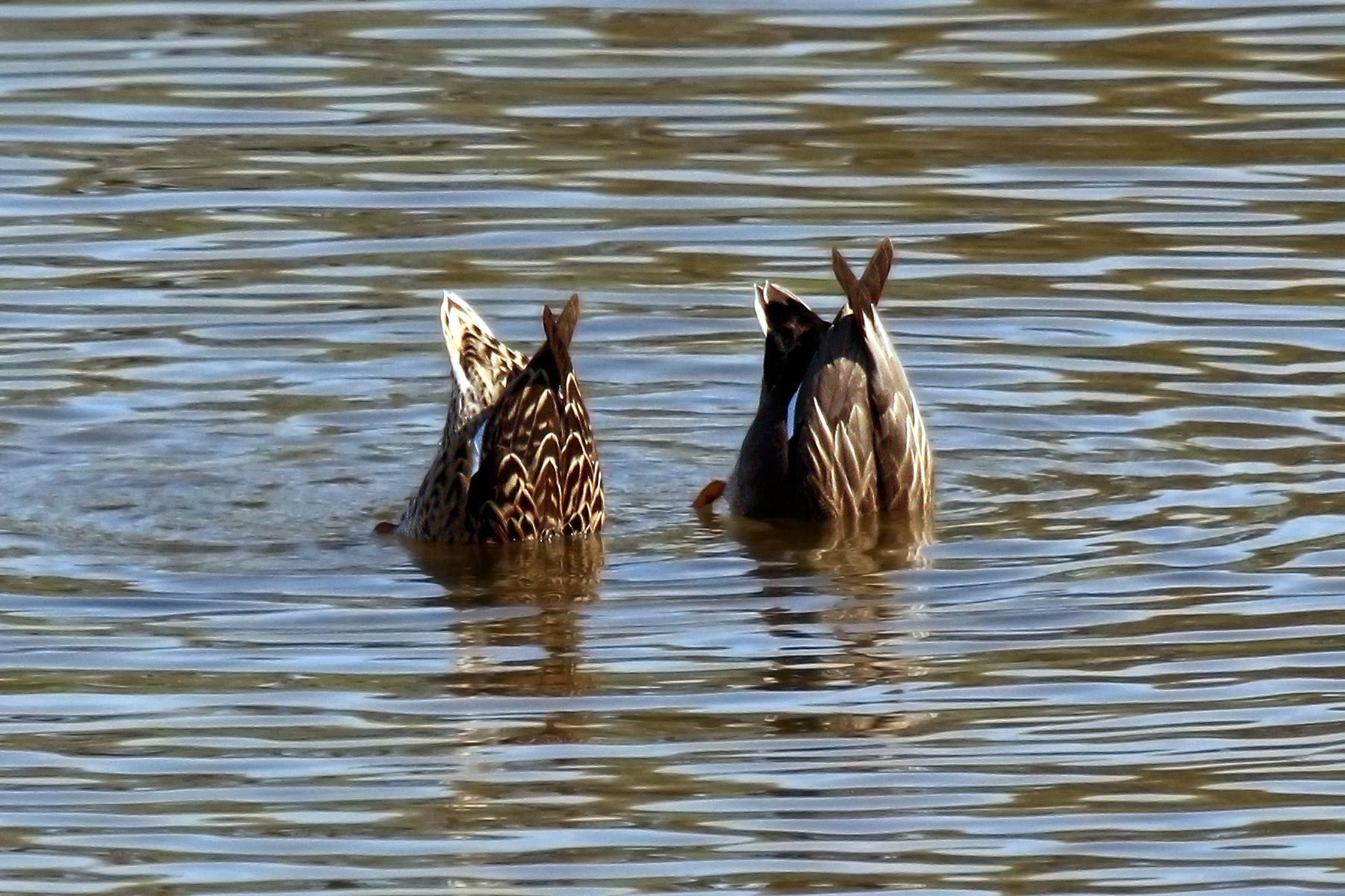 Gadwall (Anas strepera) female and male dabbling